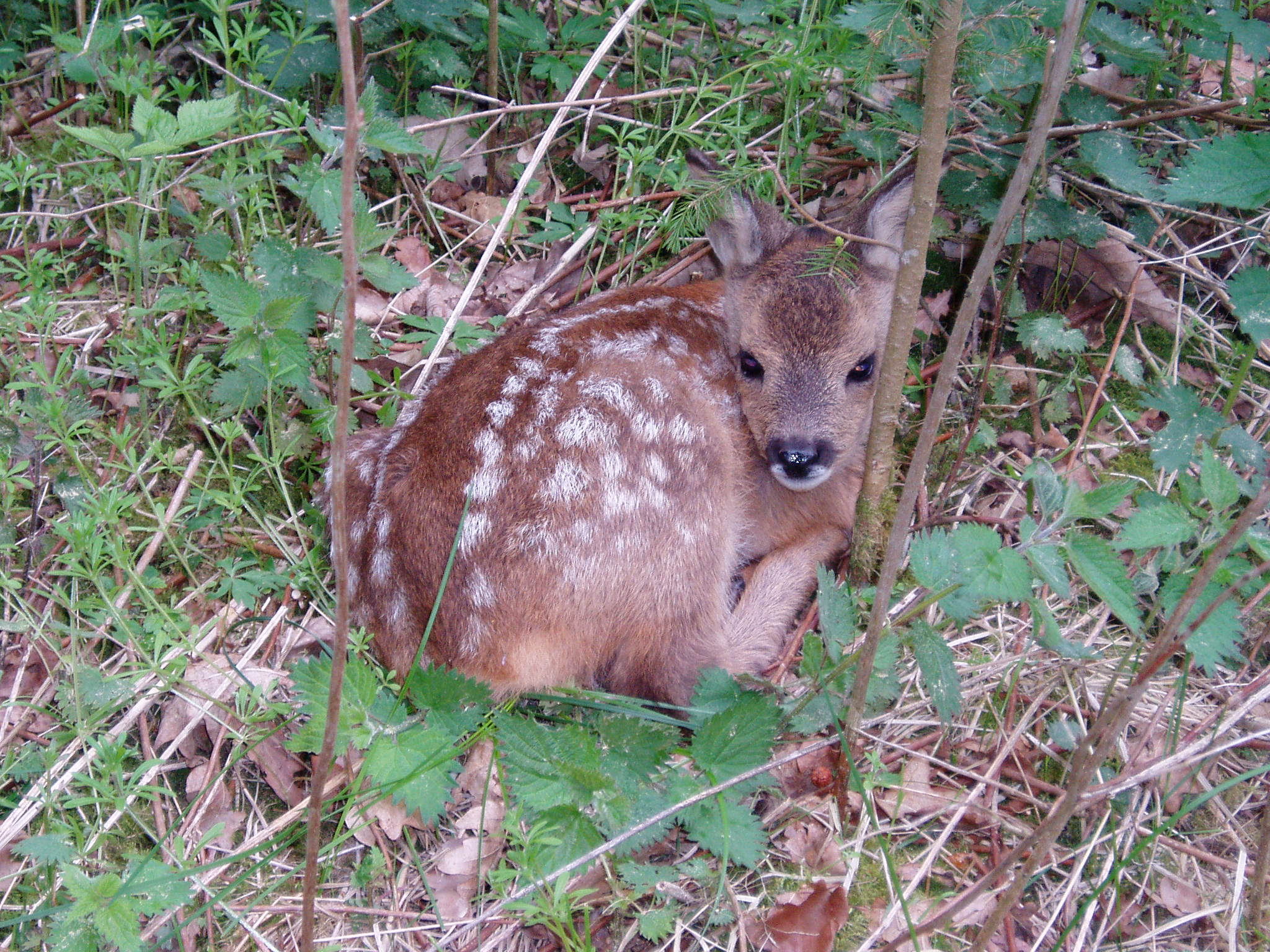 A Row Deer kid in Denmark